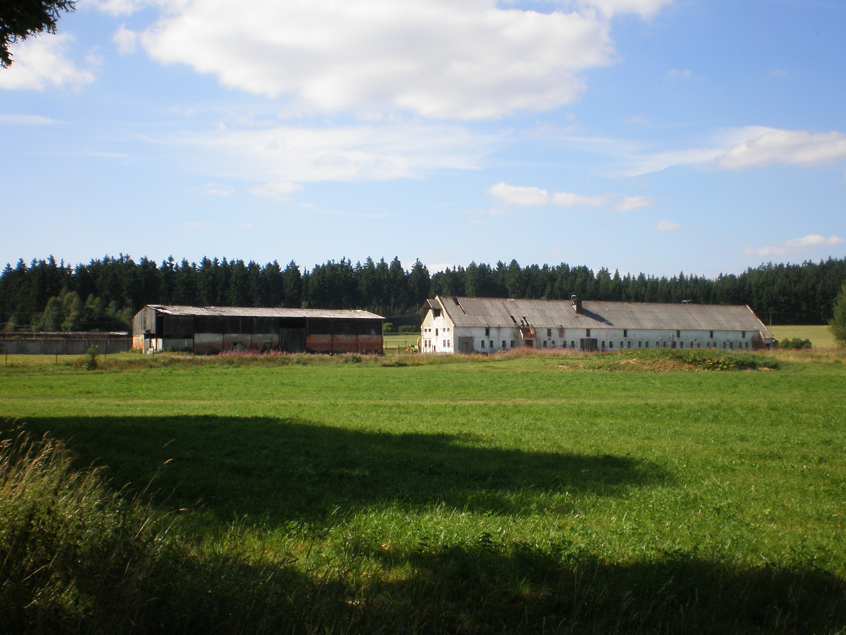 The Farm in abandoned village Štítary (Aš) in Czech Republic, Cheb District